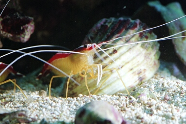 Cleaner shrimp